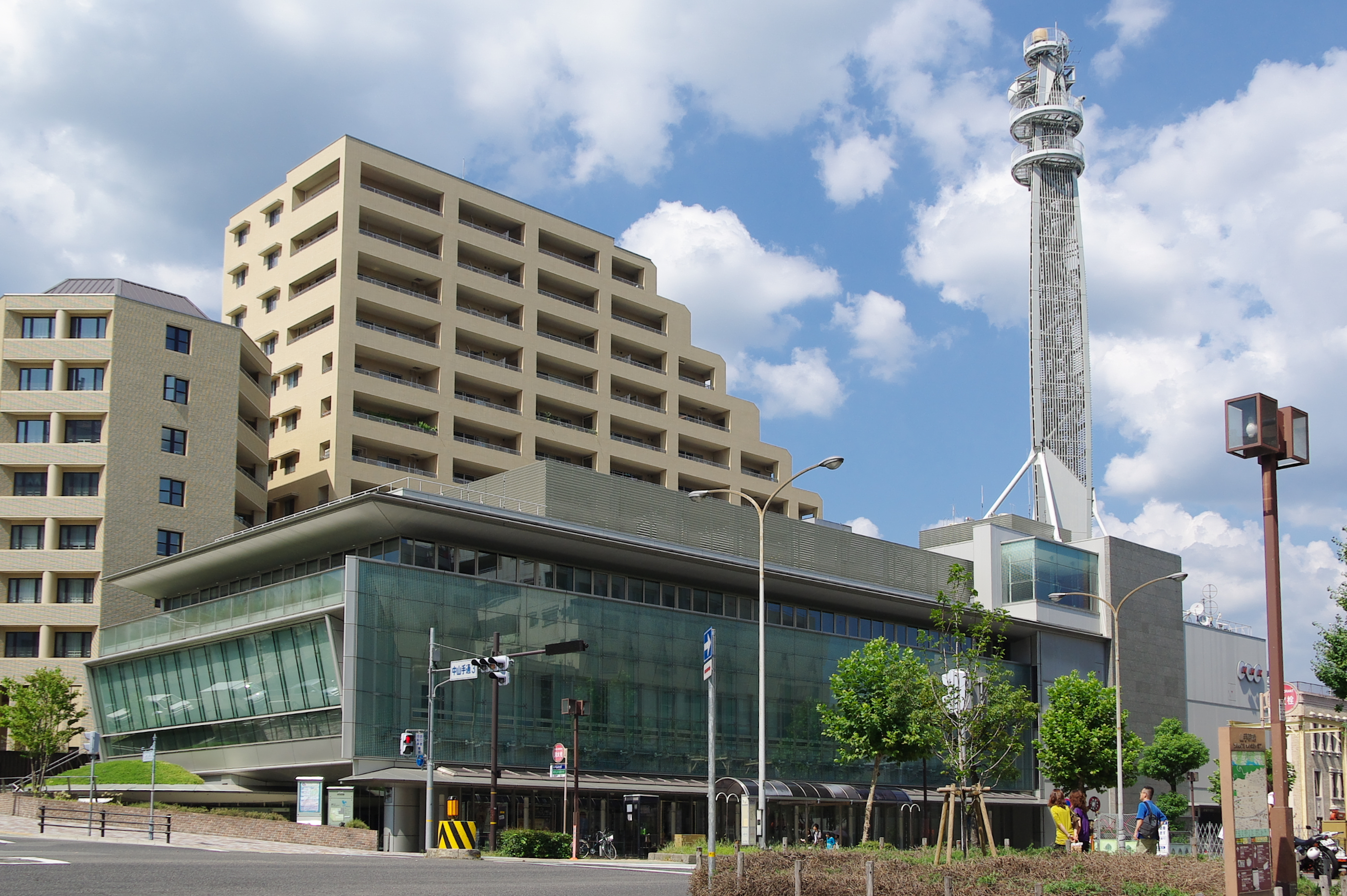 Photograph of NHK Kobe Broadcasting Station Building in Chuo-ku, Kobe, Hyoto Prefecture, Japan.